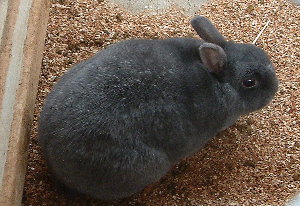 Enderby Island Rabbit in Queens Park Gardens, Invercargill